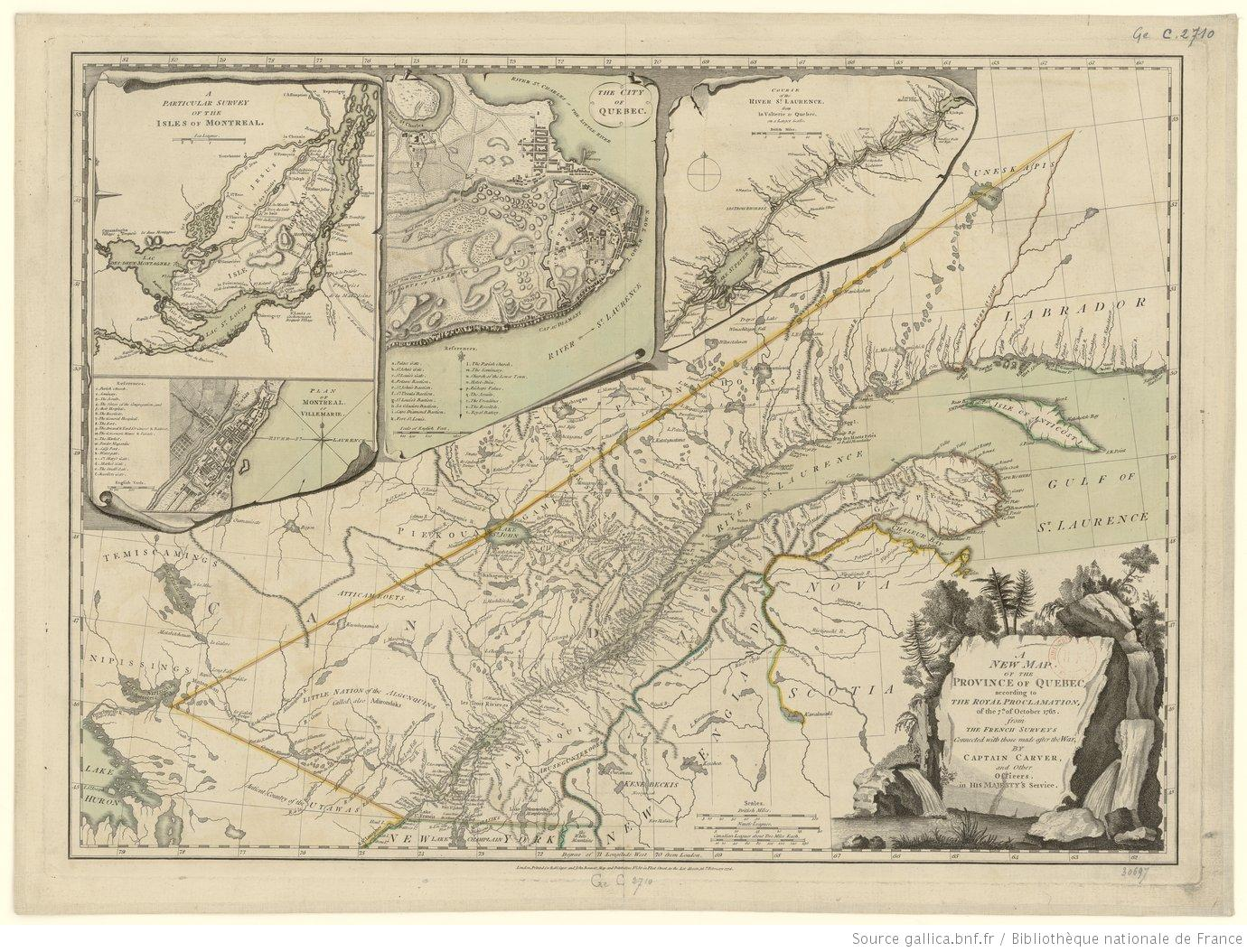 A New Map of the province of Quebec according to the royal proclamation of the 7th of october 1763 from the french surveys connected with those made after the war by captain Carver, and other officers in his Majesty's service.